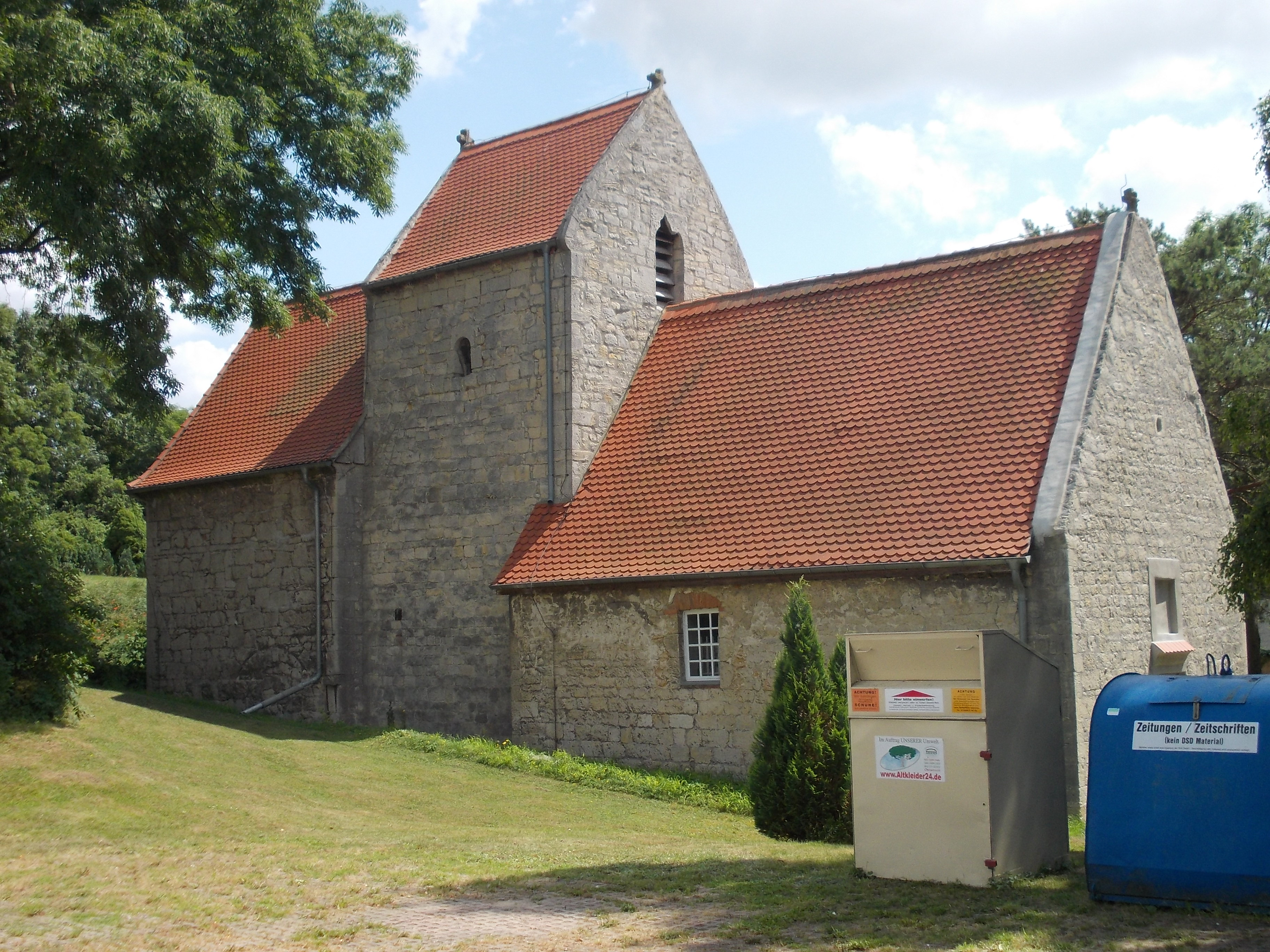 St. Anne's Church in Pettstädt (Weißenfels, district: Burgenlandkreis, Saxony-Anhalt)